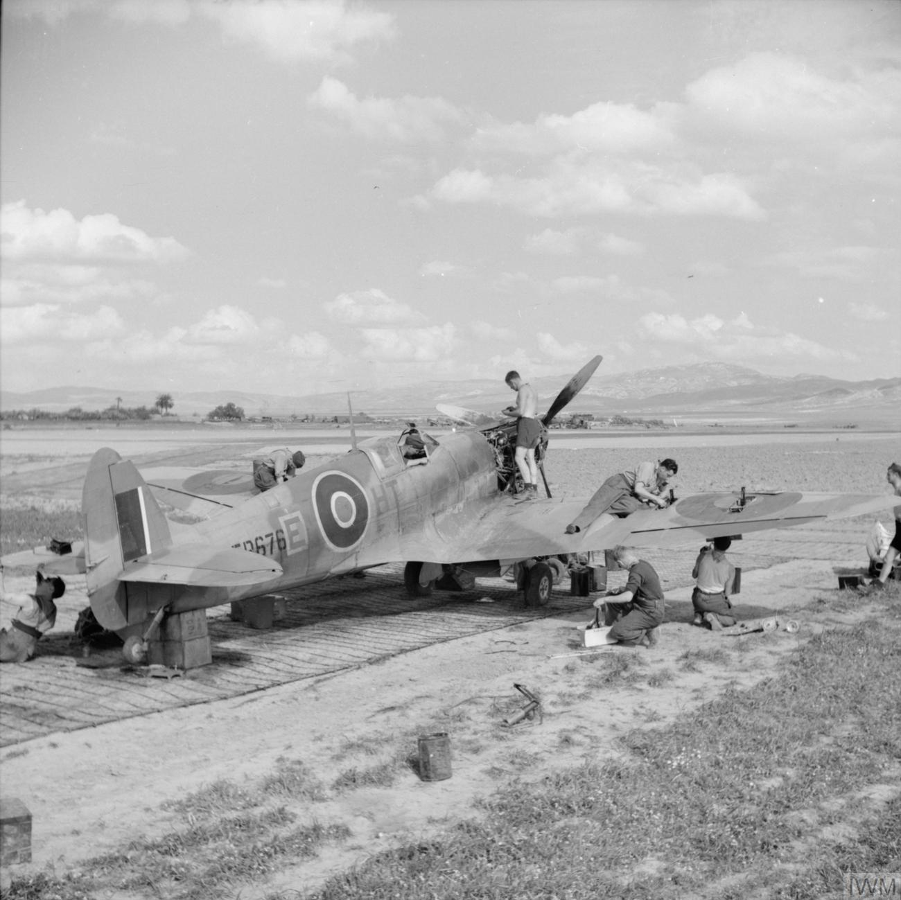 Royal Air Force Operations in the Middle East and North Africa, 1939-1943. Ground crew servicing Supermarine Spitfire Mark VB, ER676 'HT-E', of No. 154 Squadron RAF in its dispersal at Souk el Khemis ('Victoria'), Tunisia. The aircraft failed to return from a mission escorting American B-25s to Tunis the following day.